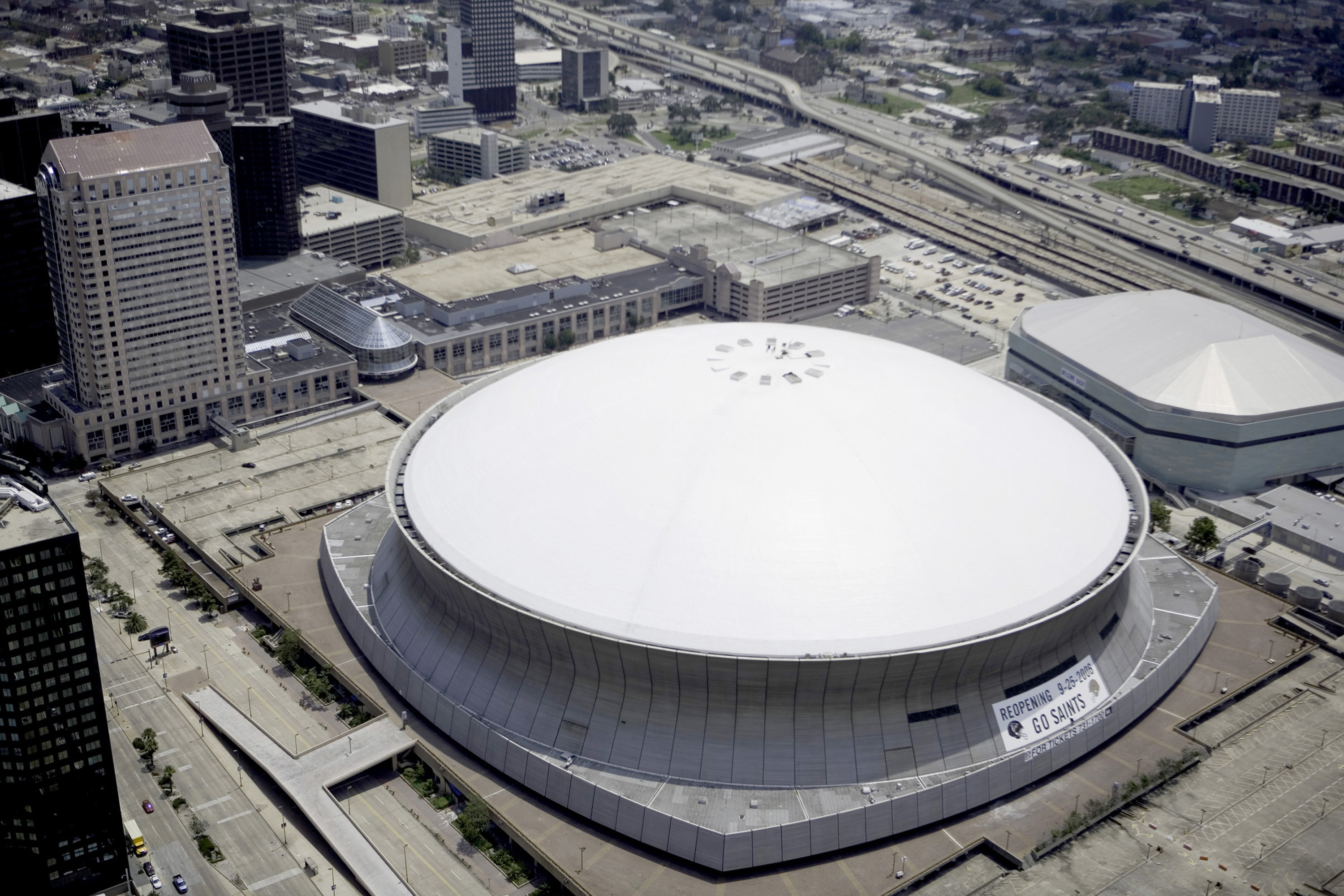 New Orleans, LA, August 15, 2006 -- The Louisiana Superdome served as a shelter of last resort in the aftermath of Hurricane Katrina, but sustained major damages during the storm. FEMA provided $176 million in funding for emergency protective measures, debris removal, mitigation measures and repairs to the facility, speeding the New Orleans' Saints return to their home field. Ed Edahl/FEMA